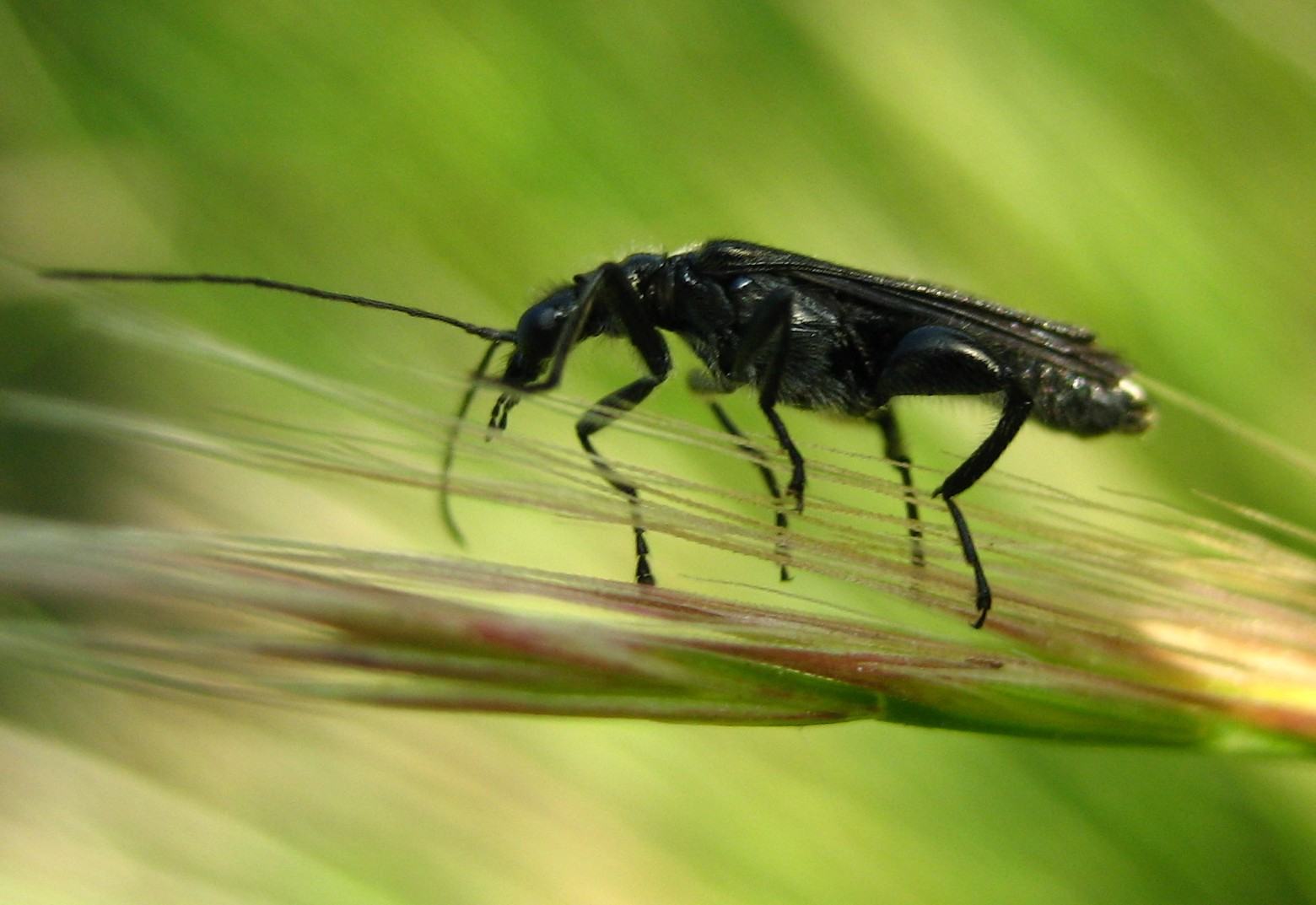 Oedemera atrata (Coleoptera:Oedemeridae). Terrassa (NE Spain)